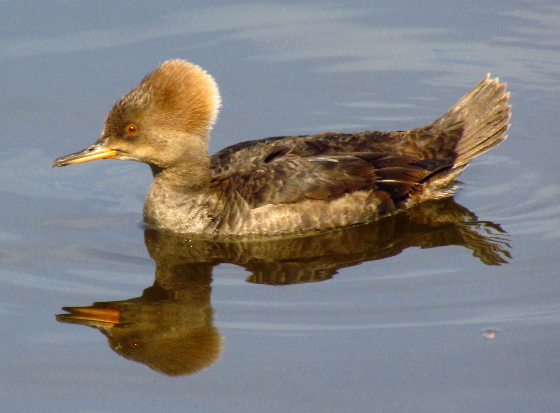 Hooded Merganser (Lophodytes cucullatus), female, Rideau River, Ottawa, Ontario, Canada